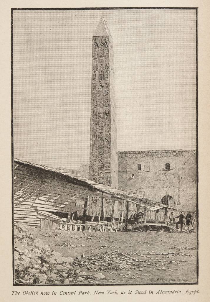 A photograph of the original location of the Obelisk that now stands in New York. It shows the broken down building in the foreground with men looking towards the viewer; behind it stands the obelisk and in the background is another building.